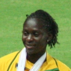 World Athletics Championships 2007 in Osaka - Victory ceremony for the women's 4*100 metres relay (Allyson Felix not present among US team due to preparation for the 4*400 metres relay)